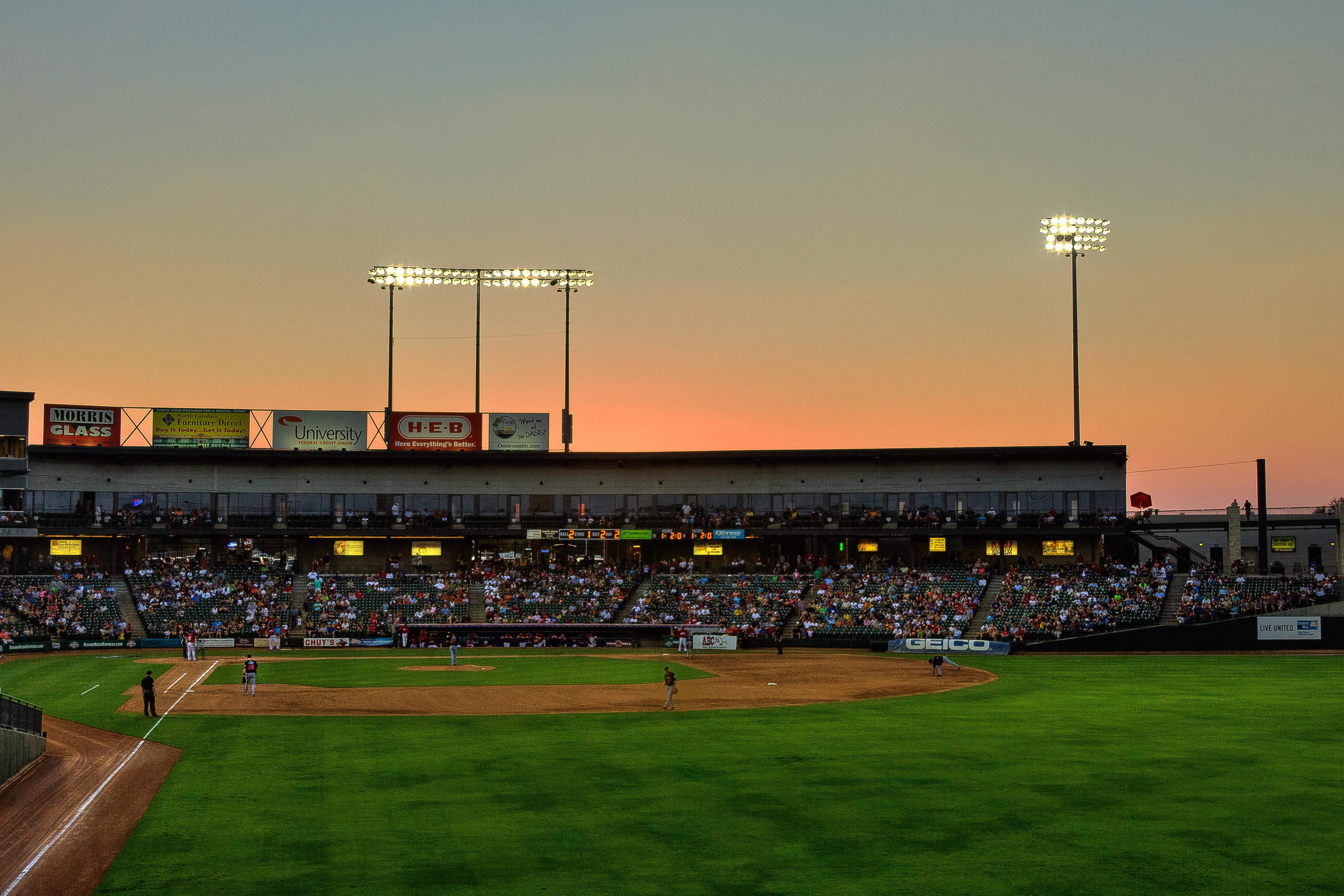 The third base stands of the Dell Diamond, home of the Round Rock Express, as seen from right field on September 3rd, 2011.